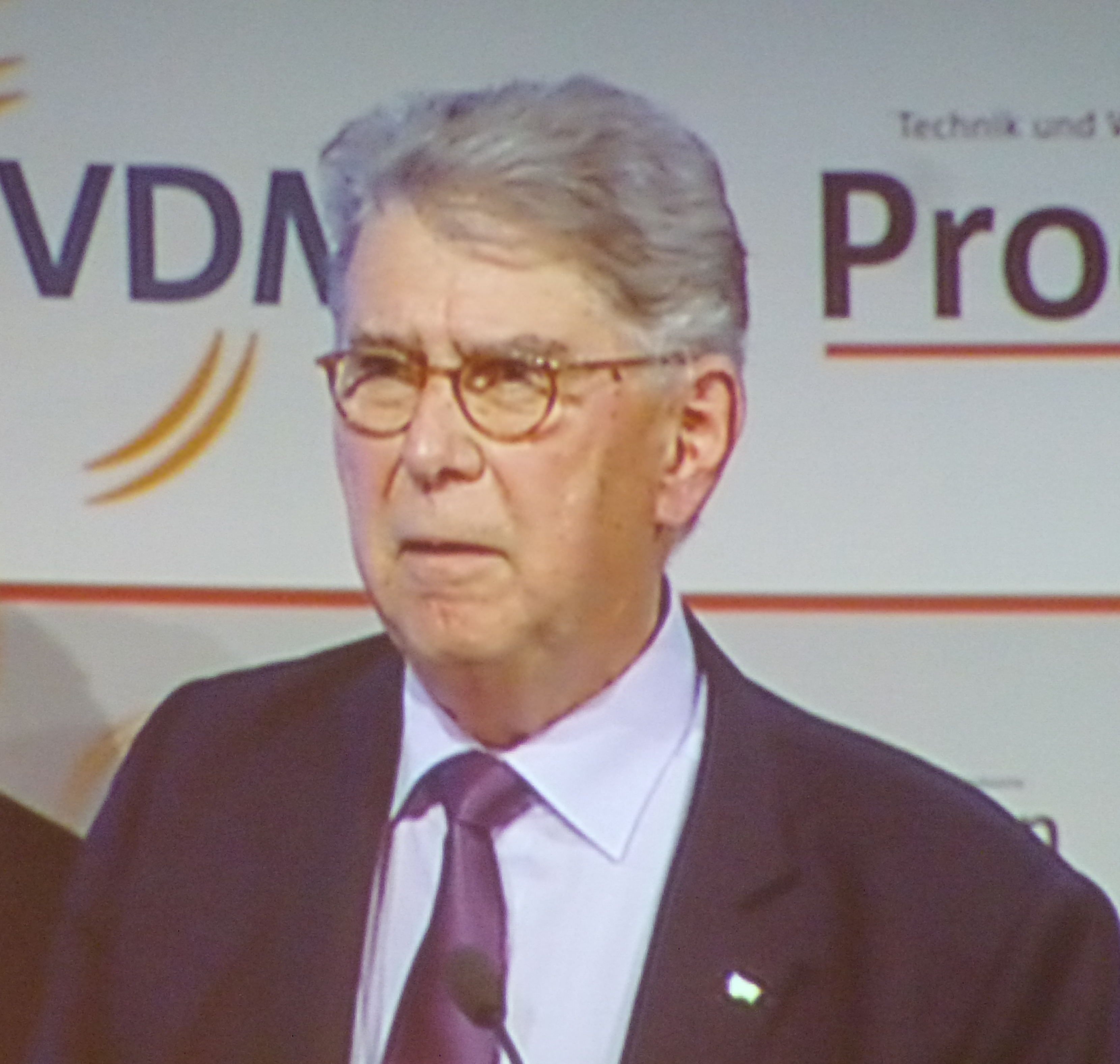 Heinz Duerr, German Entrepreneur and Manager of Durr AG